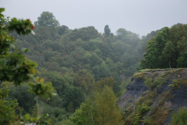 Doultons Clay Pit Some exposed geological layers can be seen here in this disused clay pit.